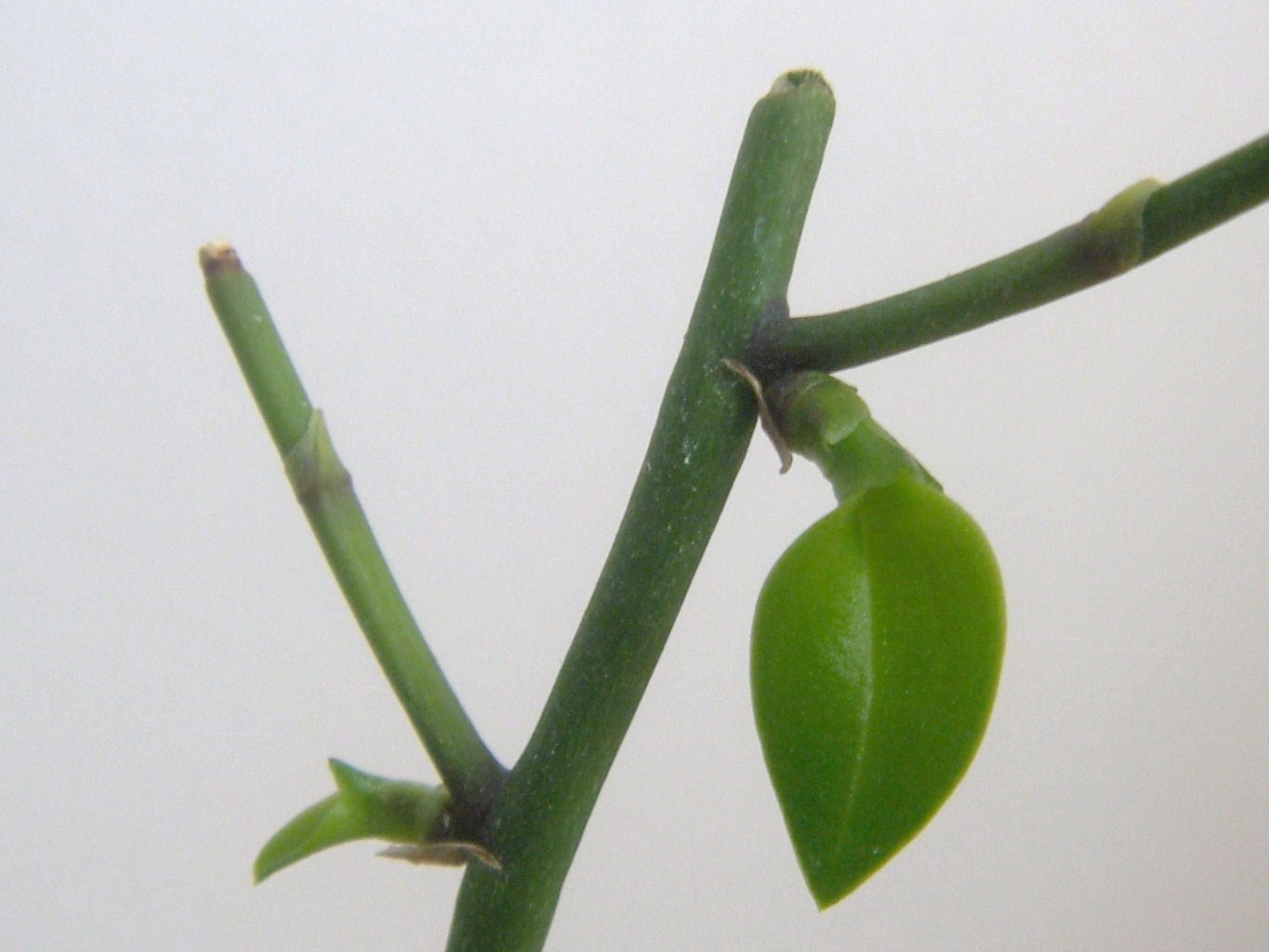 A common keiki born in a spike of Phalaenopsis equestris grown at home